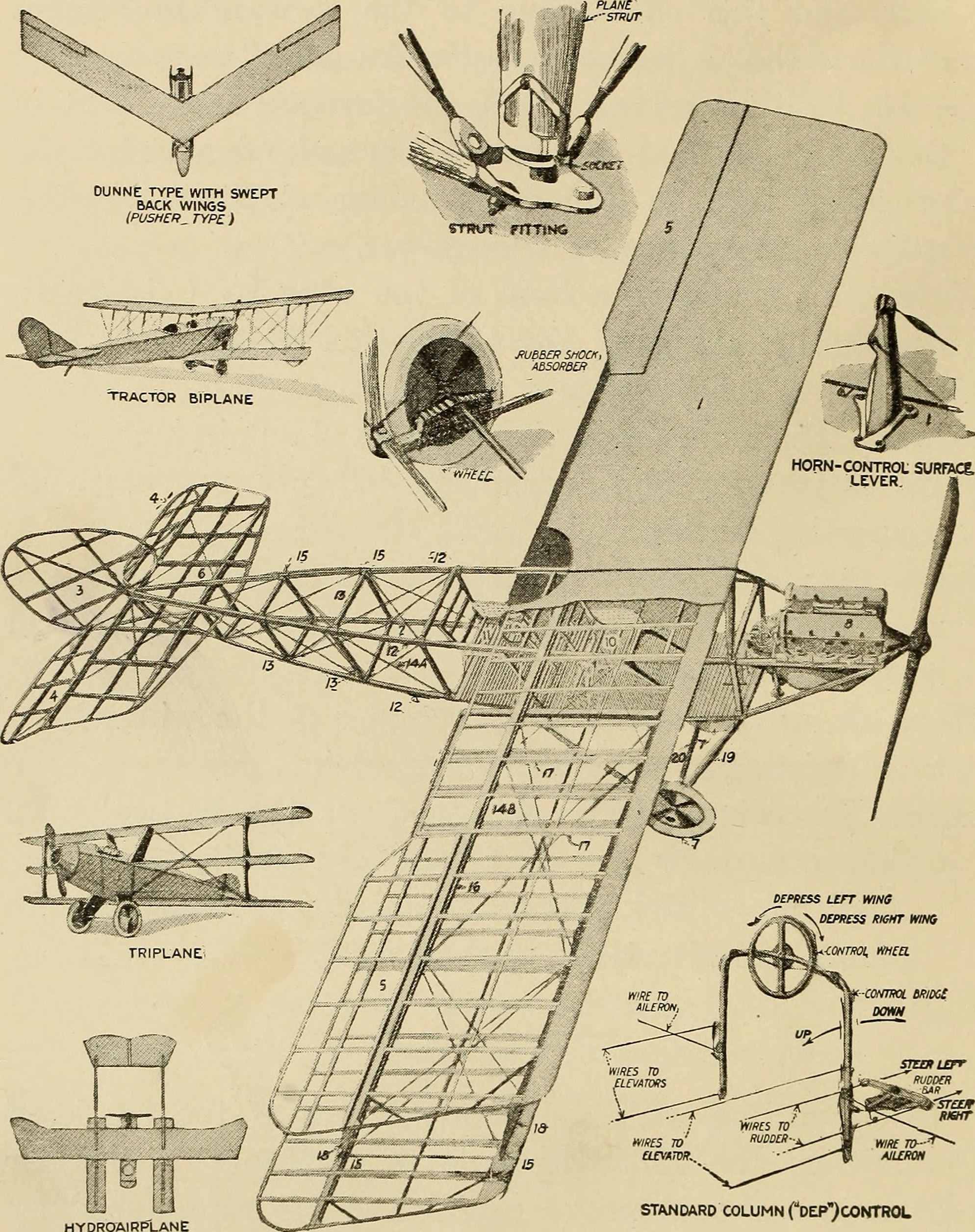 Title: Drafting room methods Year: 1918 (1910s) Authors: Collins, Charles Dickey, 1872- (from old catalog) Subjects: Drawing-room practice Mechanical drawing Publisher: New York, D. Van Nostrand company Text Appearing Before Image: of thepropeller through the surrounding medium, therebyreducing the propeller horsepower. Warp: To change the form of the wing by twisting it,usually by changing the inclination of the rear sparrelative to the front spar. Wings : The main supporting surfaces of an airplane. Wing loading: The weight carried per unit area ofsupporting surface. Wing rib : A fore and aft member of the wing structureused to support the covering and to give the wing sectionits form. Wing spar: An athwartship member of the wing struc-ture resisting tension and compression. Yaw: To swing off the course about the vertical axis,owing to gusts or lack of directional stability. Angle of. — The temporary angular deviation of thefore and aft axis from the course. In connection with the nomenclature of the AdvisoryCommittee, the following cuts of airplanes with theirpart names should prove useful and are reproduced bypermission of the American Machinist and the AircraftMechanics Handbook. 60 DRAFTING ROOM METHODS Text Appearing After Image: HYDROAIRPLANEOR SEAPLANE (PU5HCR TYPO STANDARD COLUMN (OEP^CONTROL No. 8-Engine 9-Propeller 10-Obeservers or passengers seat 11-Pilots seat 12-Longeron6-Horizontal stabilizer 13-Fuselage strut7-Wheel 14 A-Fuselage truss wire No. 1-Upper plane lA- Lower plane 2-Fuselage or body 3-Rudder 4-Elevator 5-Aileron No. 14B-Internal draft wire 15-Socket 16-Plane or wing spars 17-Ribs 18-Wing strut, (front and rear) 19-Landing gear strut 20-Axle Typical Airplanes and Details of Construction CONVENTIONAL SYMBOLS—CROSS-SECTIONS Reported by the Committee on Standard Cross-sectionsand Symbols, December, 1914. The American Society ofMechanical Engineers. V2